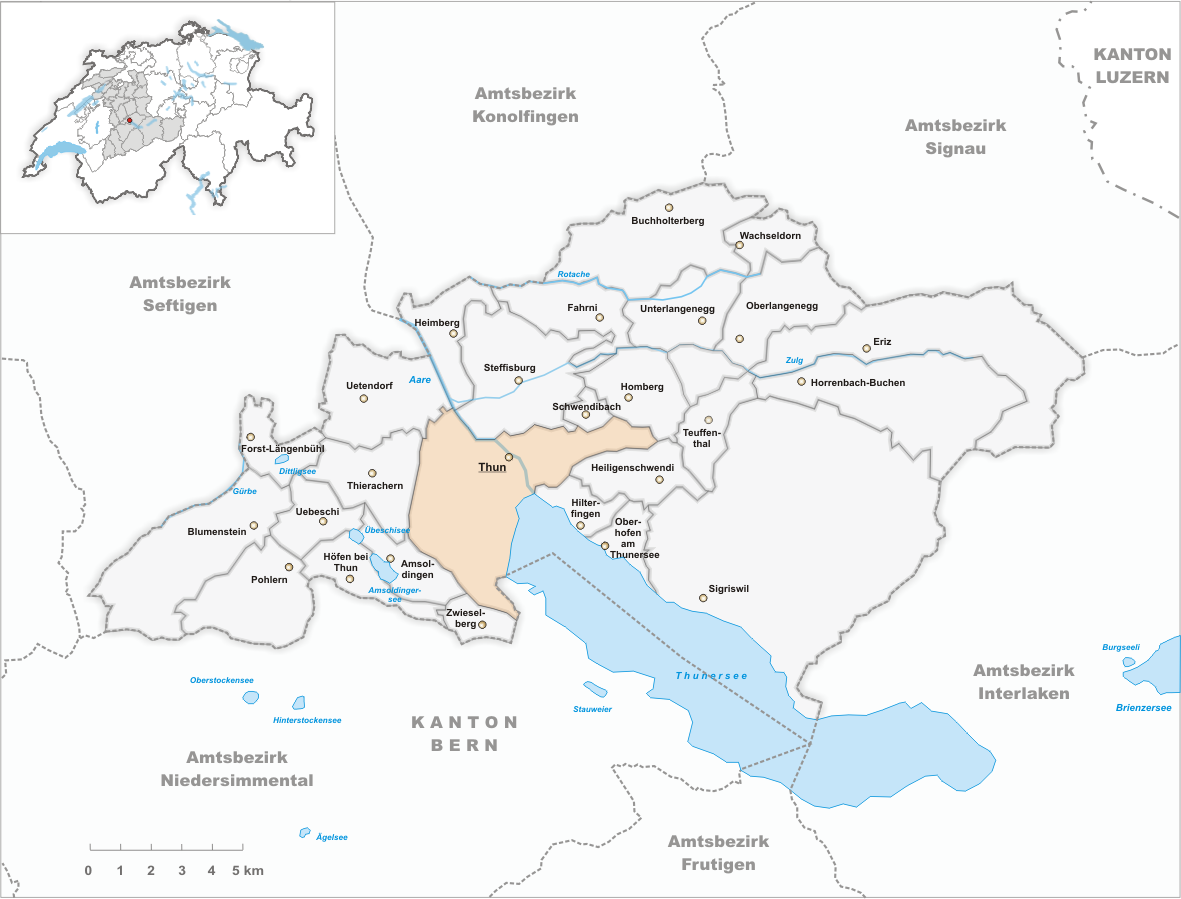 Municipality Thun